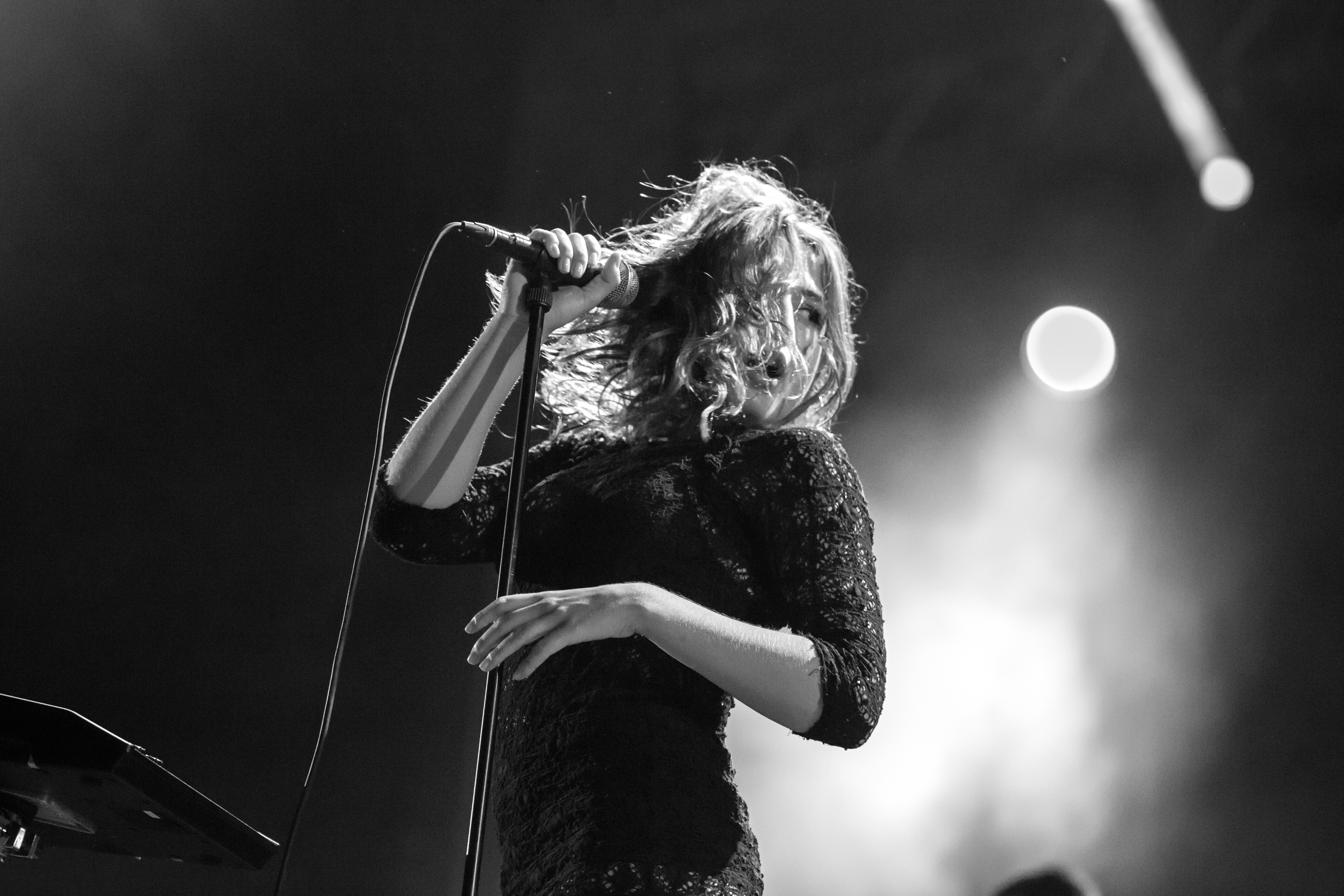 Izïa Higelin at "le weekend des curiosités 2015", Ramonville, France